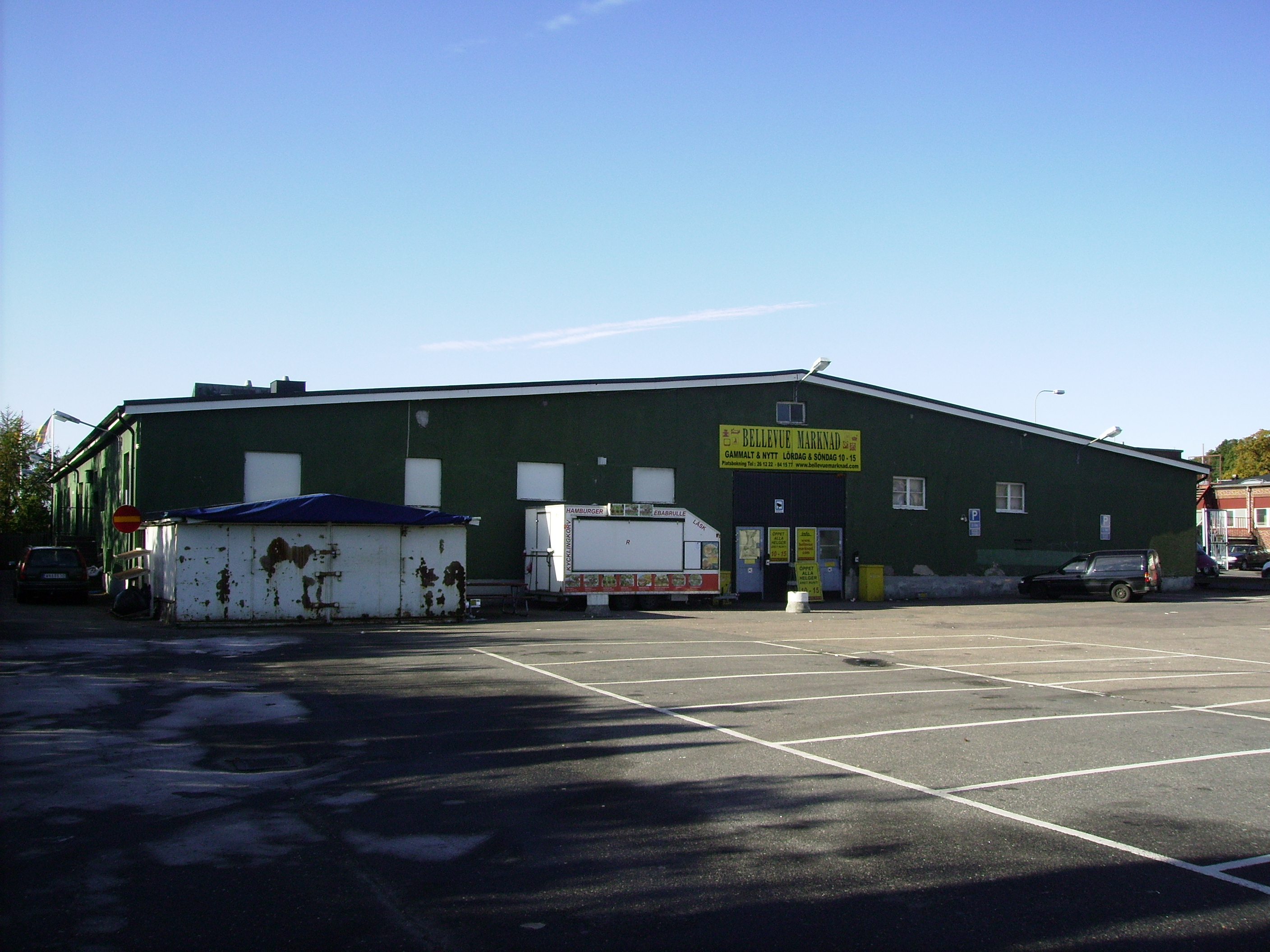 Picture of Bellevue flee market in Gothenburg